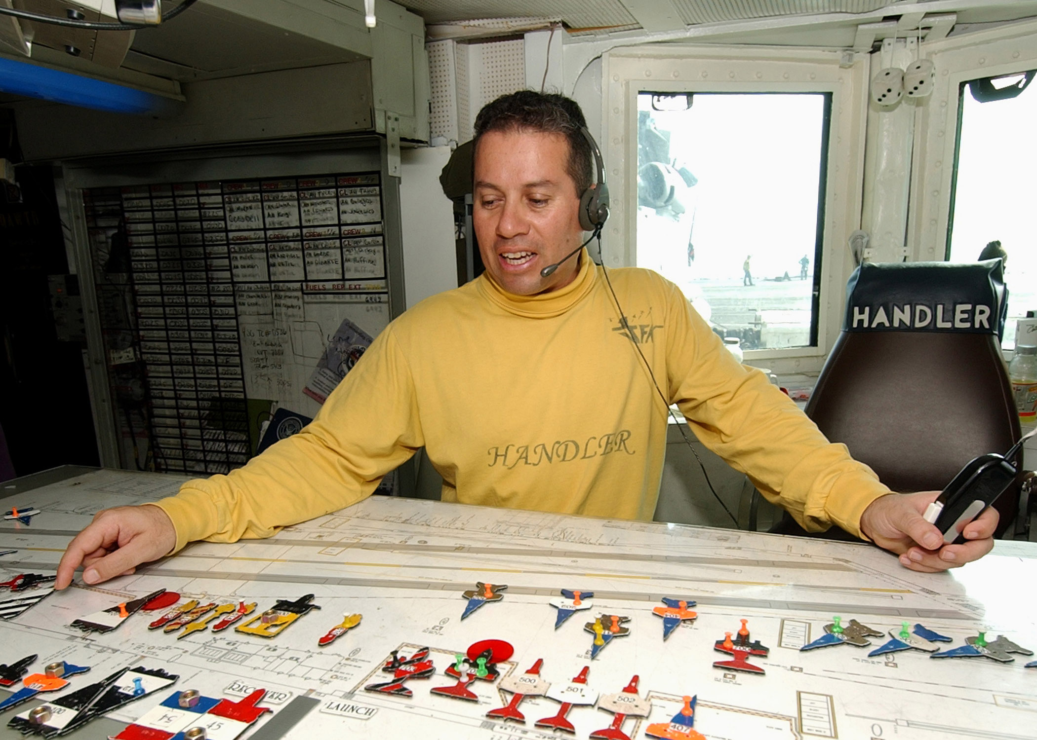 Arabian Gulf (Sept. 22, 2004) - Flight Deck Handling Officer, Lt. Cmdr. Daryl Walls assigned to the aircraft carrier USS John F. Kennedy (CV 67), monitors overall operation on the “ouija” board during flight operations in the Arabian Gulf. Kennedy and her embarked Carrier Air Wing Seventeen (CVW-17) are operating in the 5th Fleet area of responsibility (AOR) in support of Operation Iraqi Freedom (OIF). Units attached to the Kennedy Carrier Strike Group (CSG) are working closely with Multi-National Corps-Iraq and Iraqi forces to bring stability to the sovereign government of Iraq. U.S. Navy photo by Photographer’s Mate 2 Class Michael Sandberg (RELEASED)